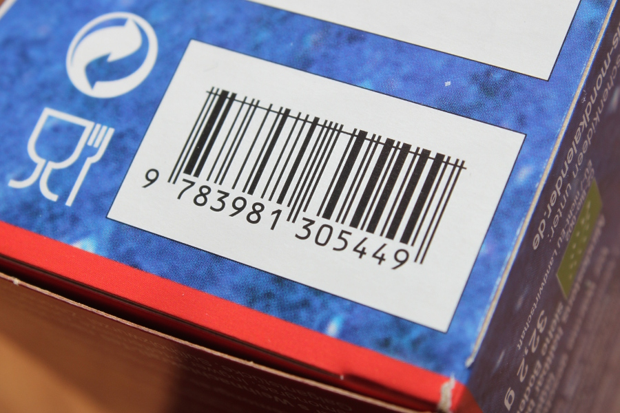 Barcode with vertical line for "anti-jamming of energy fields"; on a package of tea